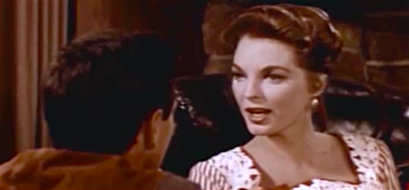 Trailer screenshot from Saddle the Wind (1958)